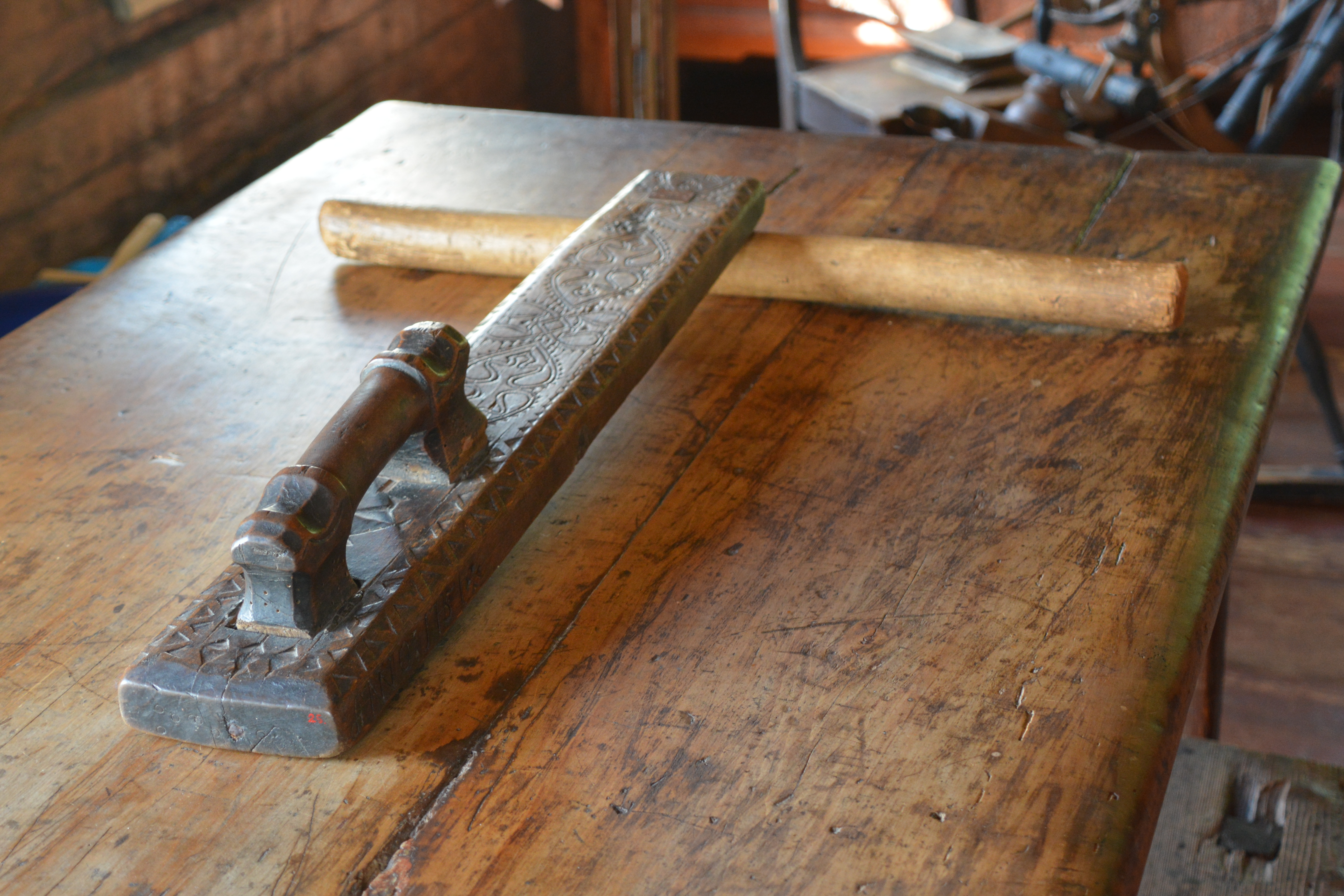 Mangle, Palojoli, Finland, dated 1751. From Aleksis Kivi's childhood home.